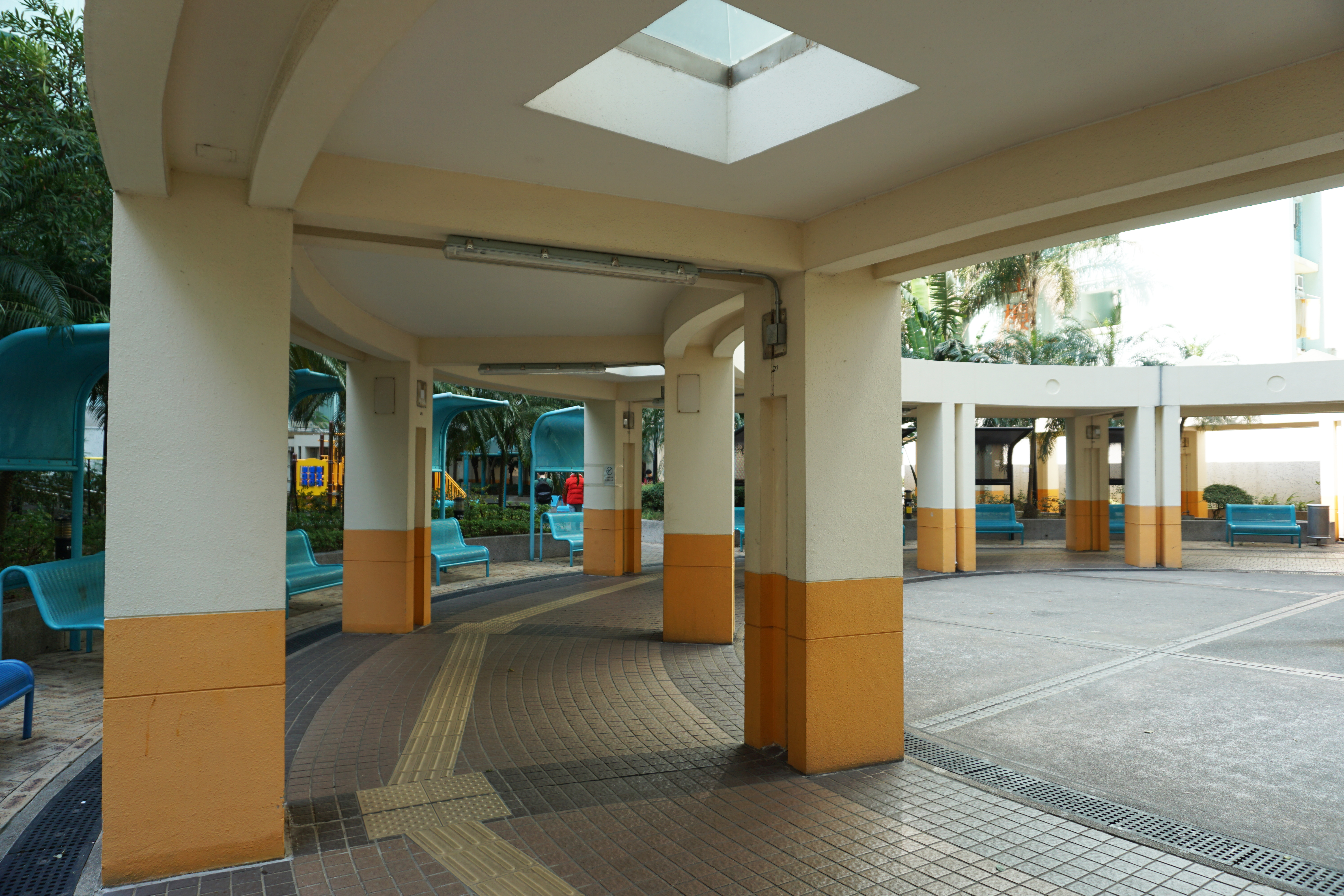 Fu Cheong Estate in Sham Shui Po, Hong Kong.